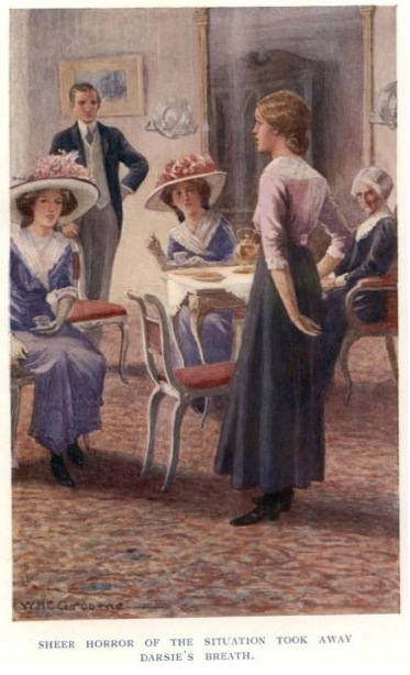 Artwork from "A College Girl" (1913) (by Mrs George de Horne Vaizey (1857-1917))